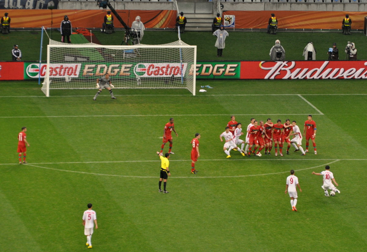 Free-kick to North Korea